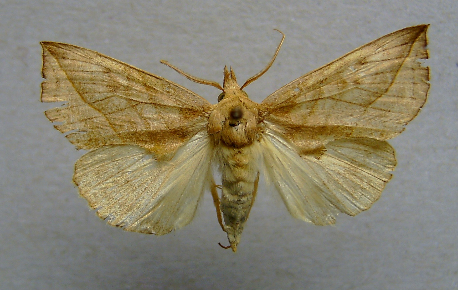 Calyptra thalictri, Comano, Switzerland